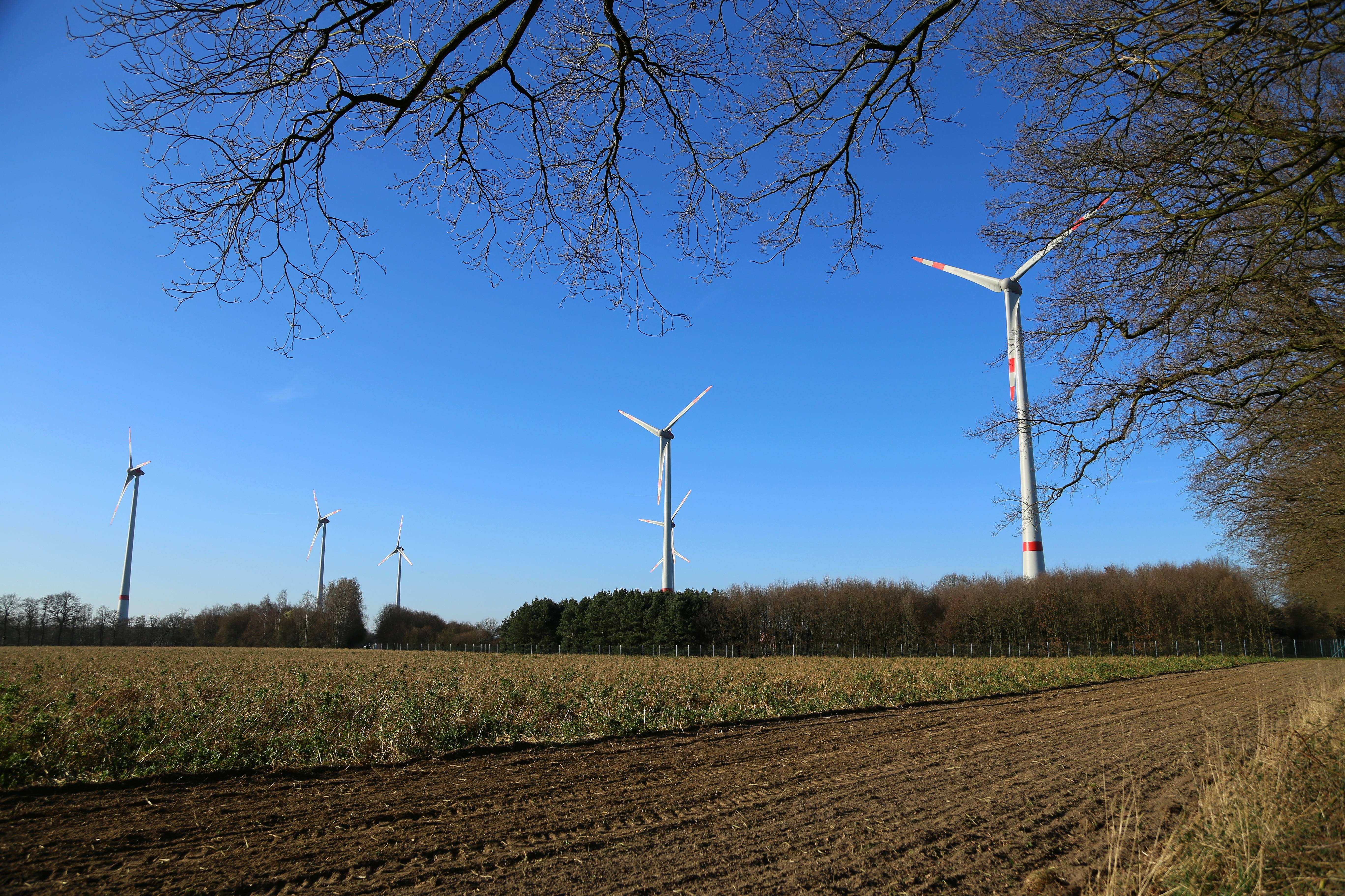 Wind farm with wind turbines of the Enercon type E-101, part of the Bioenergiepark Saerbeck near Saerbeck, Kreis Steinfurt, North Rhine-Westphalia, Germany.